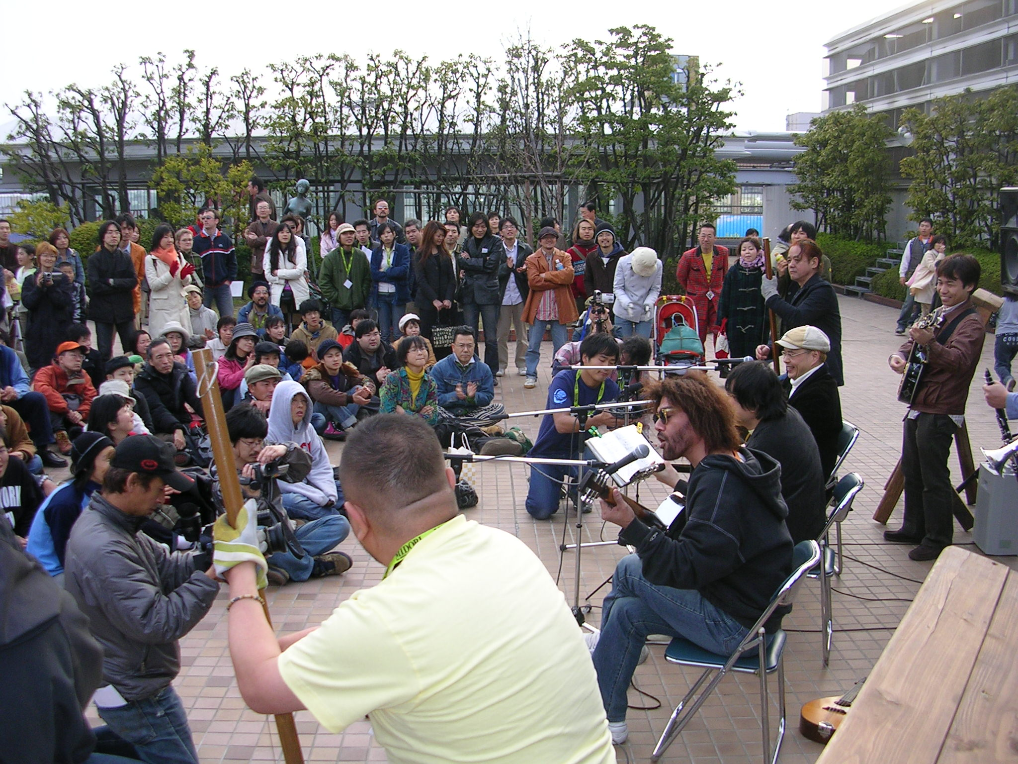 Mad-Words at Yokohama Jug Band Festival